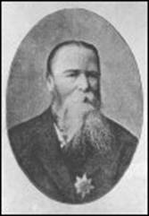 Gubonin Petr Ionovich (ru)